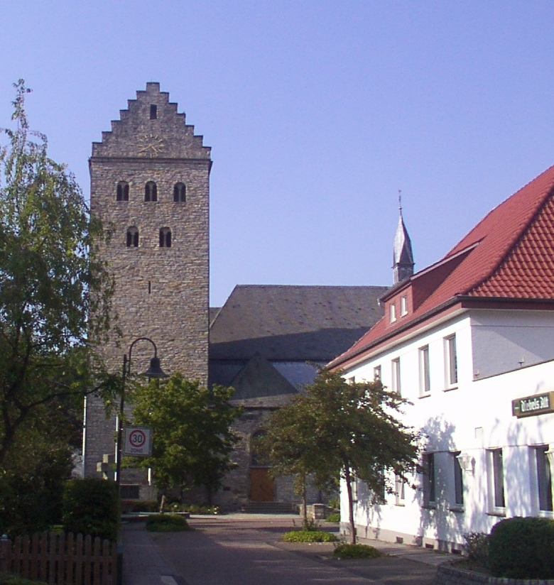 Kirchborchen: Catholic Church St. Michael in Kirchborchen